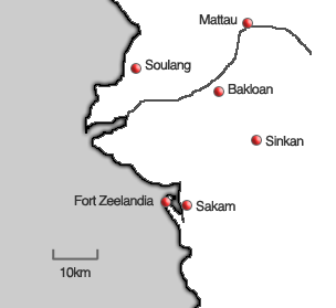 Map of the surroundings of Fort Zeelandia in southwestern Formosa (Taiwan).